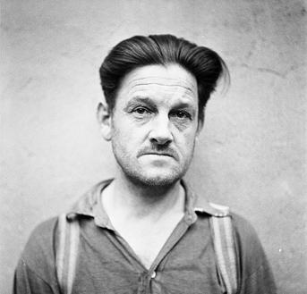 THE LIBERATION OF BERGEN-BELSEN CONCENTRATION CAMP 1945: PORTRAITS OF BELSEN GUARDS AT CELLE AWAITING TRIAL, AUGUST 1945 [Official photographPortrait photograph (formal)]